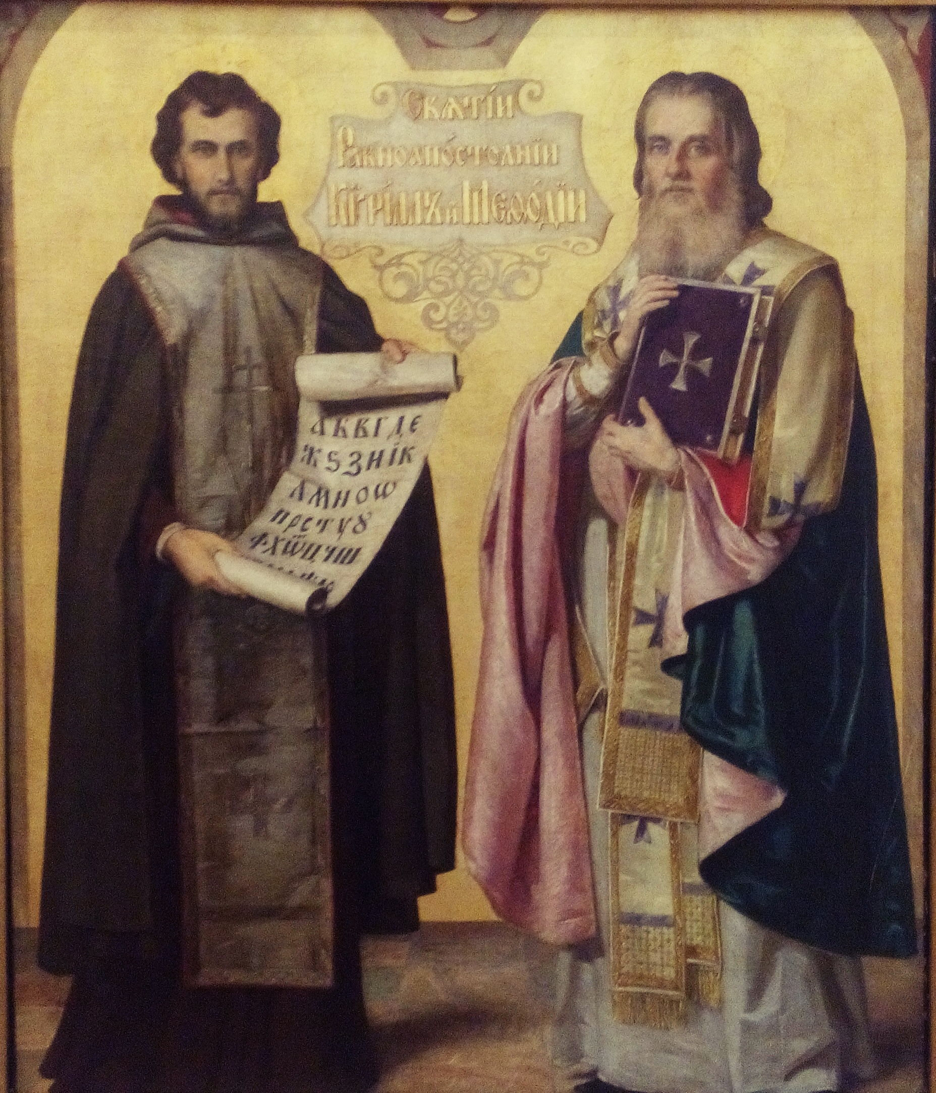 Saints Cyril and Methodius, painted by Uroš Predić